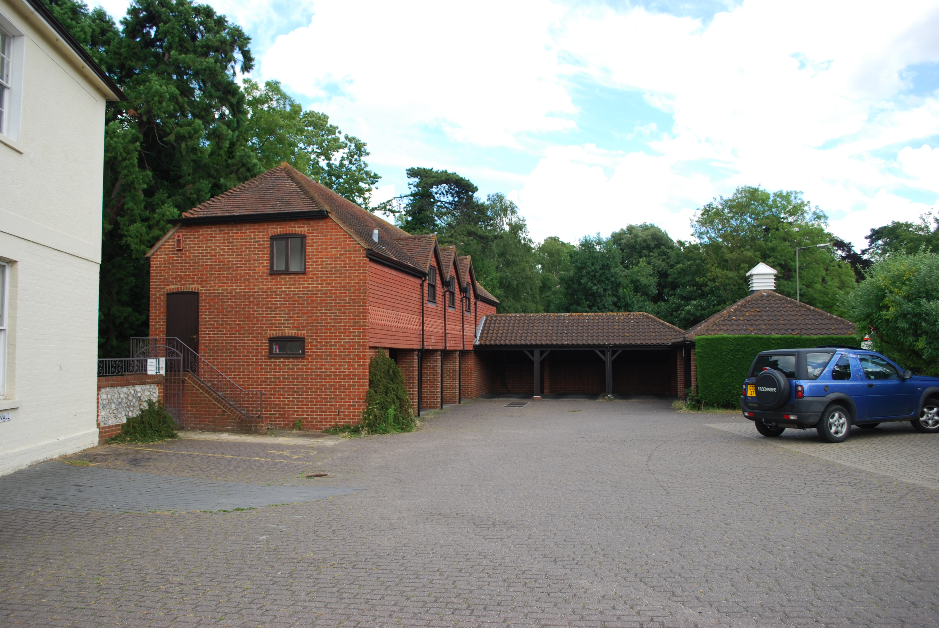 Photograph of Fitznells Manor taken by Eric Carter Juny 2009